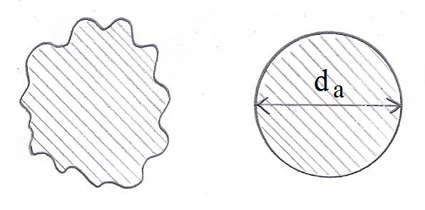 dsequivlent2